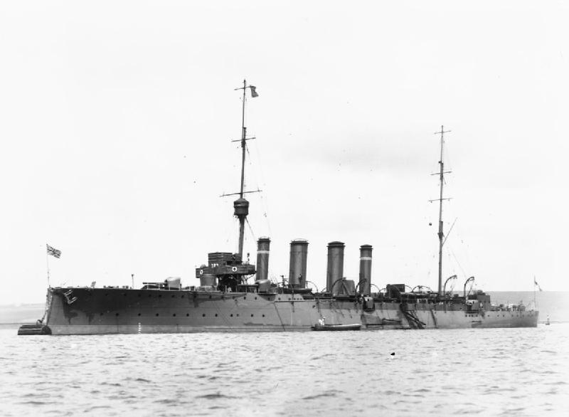 British light cruiser HMS DARTMOUTH.